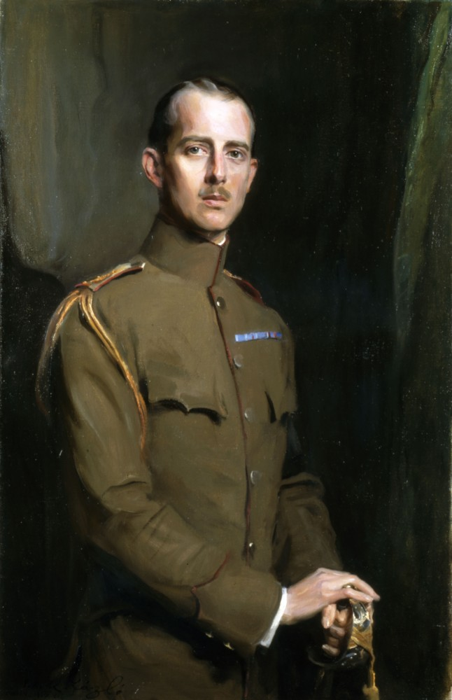 His Royal Highness Prince Andrew of Greece and Denmark, father in-law of Queen Elizabeth II